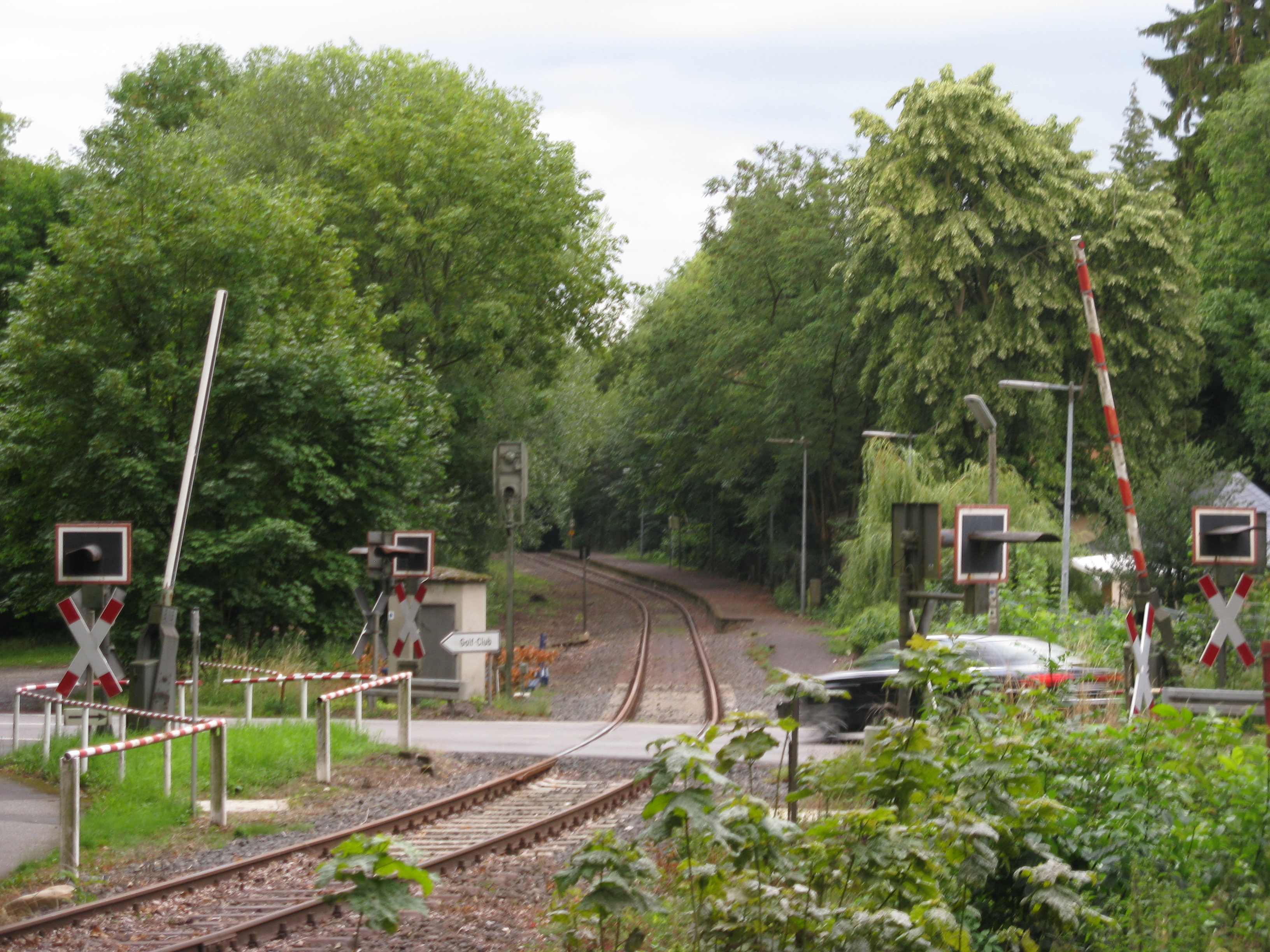 Railway stop Chausseehaus Wiesbaden